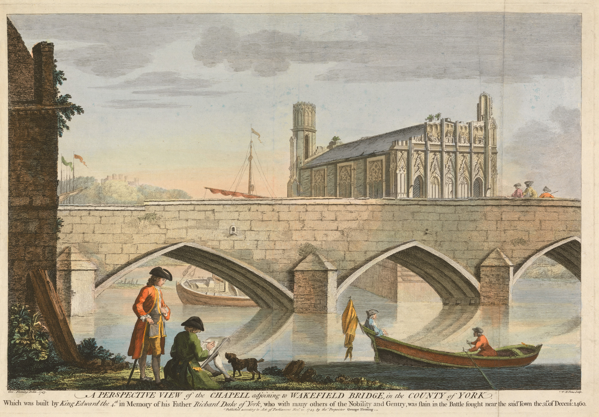 A Perspective View of the Chapel adjoining to Wakefield Bridge, in the County of York, which was built by King Edward the 4th in Memory of his Father Richard, Duke of York. Coloured engraving, 1743, by William Henry Toms. 15 in. x 21 in. (38.1 cm x 53.3cm). Courtesy of the Paul Mellon Collection, Yale Center for British Art, Yale University, New Haven, Connecticut.